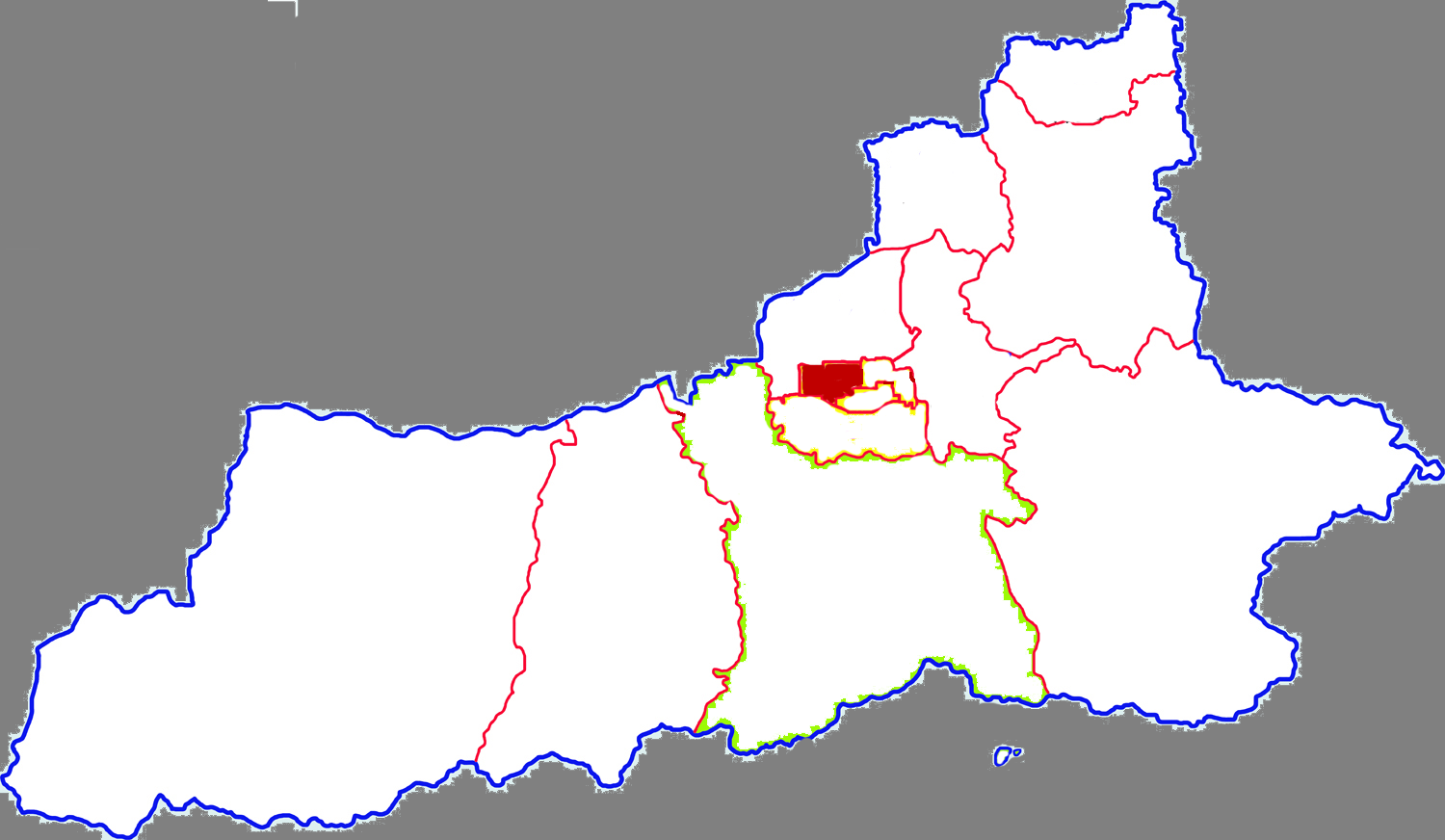 Location of Lianhu district in Xi'an city, China